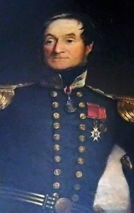 Maurice Berkeley, 1st Baron FitzHardinge - From the Berkeley Castle Collection